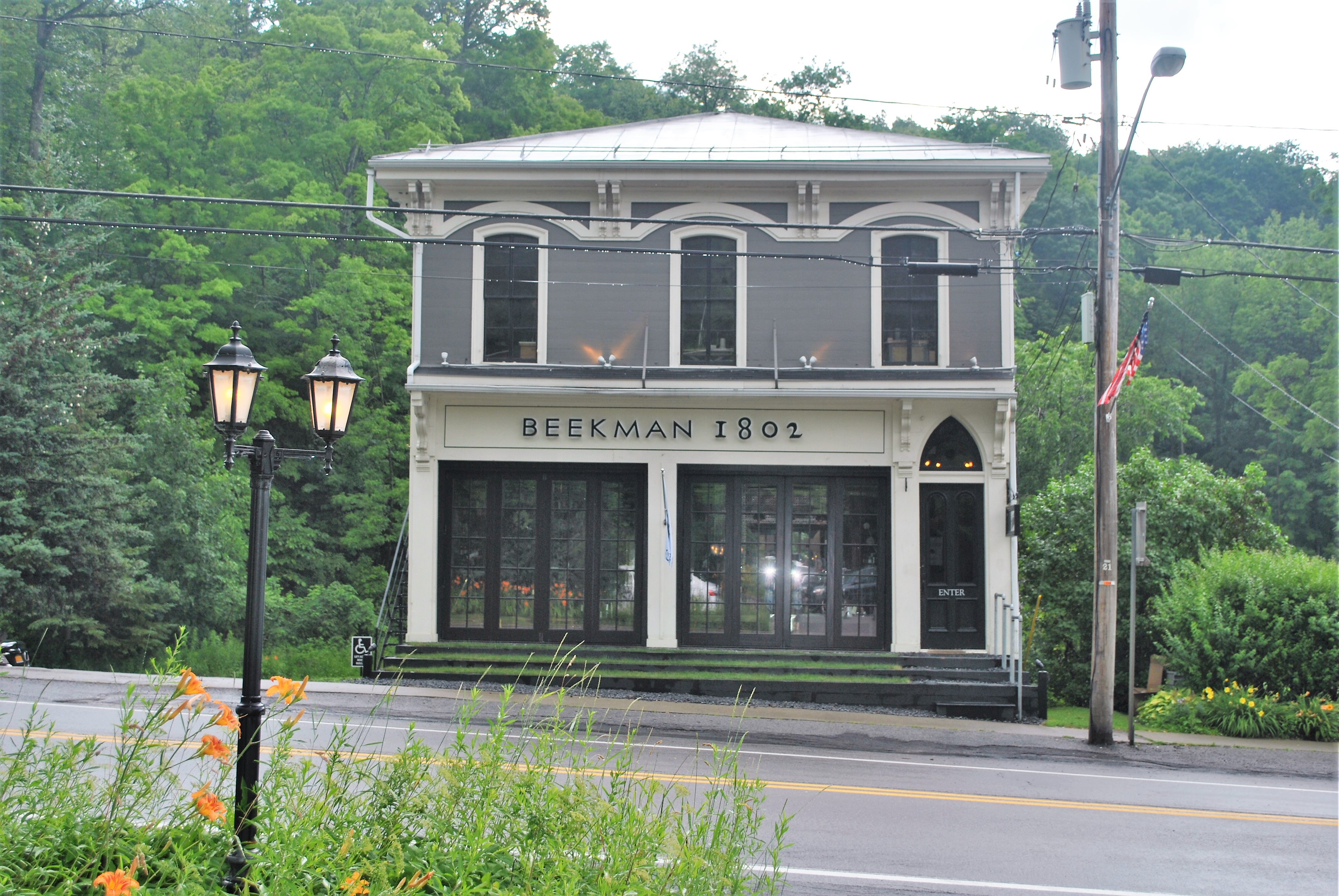 Image originally published in Queer Places: Retracing the Steps of LGBTQ people around the World Authored by Elisa Rolle